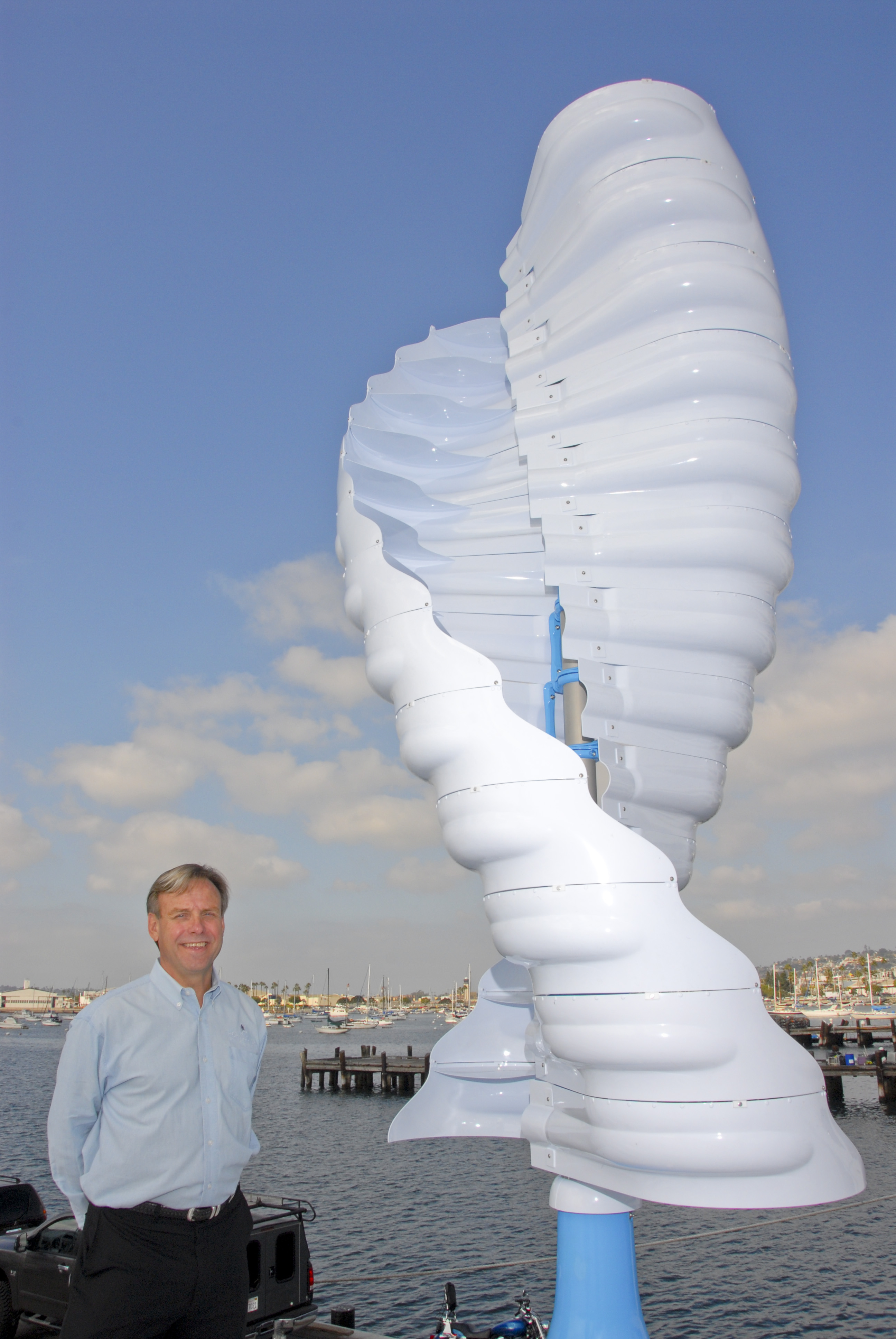 A twisted Savonius turbine installed on a passenger boat in the United States